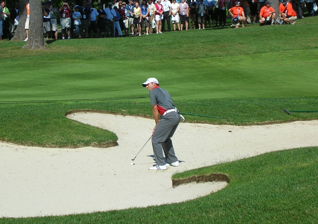 Sergio Garcia at Telus World Skins Game, La Tempête Golf Club, Lévis, province of Quebec, Canada